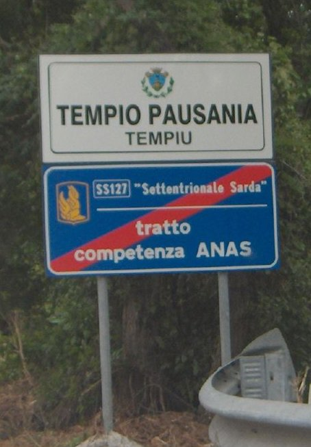 Bilingual town road sign in Sardinia (Tempio Pausania/Tempiu), Italy, in italian and gallurese. Photo taken by User:Dch in year 2006.